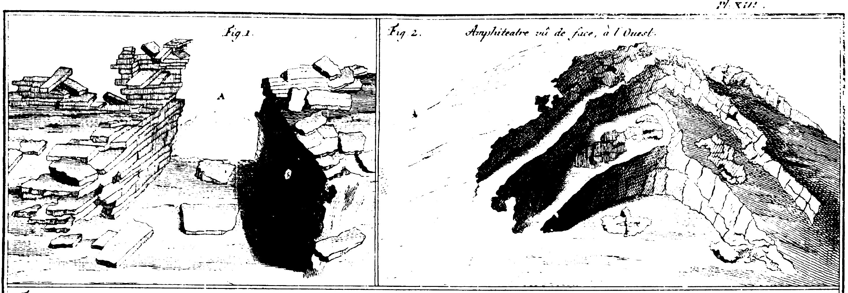 Rock formations on the Falkland Islands (Dom Pernety, 1769).